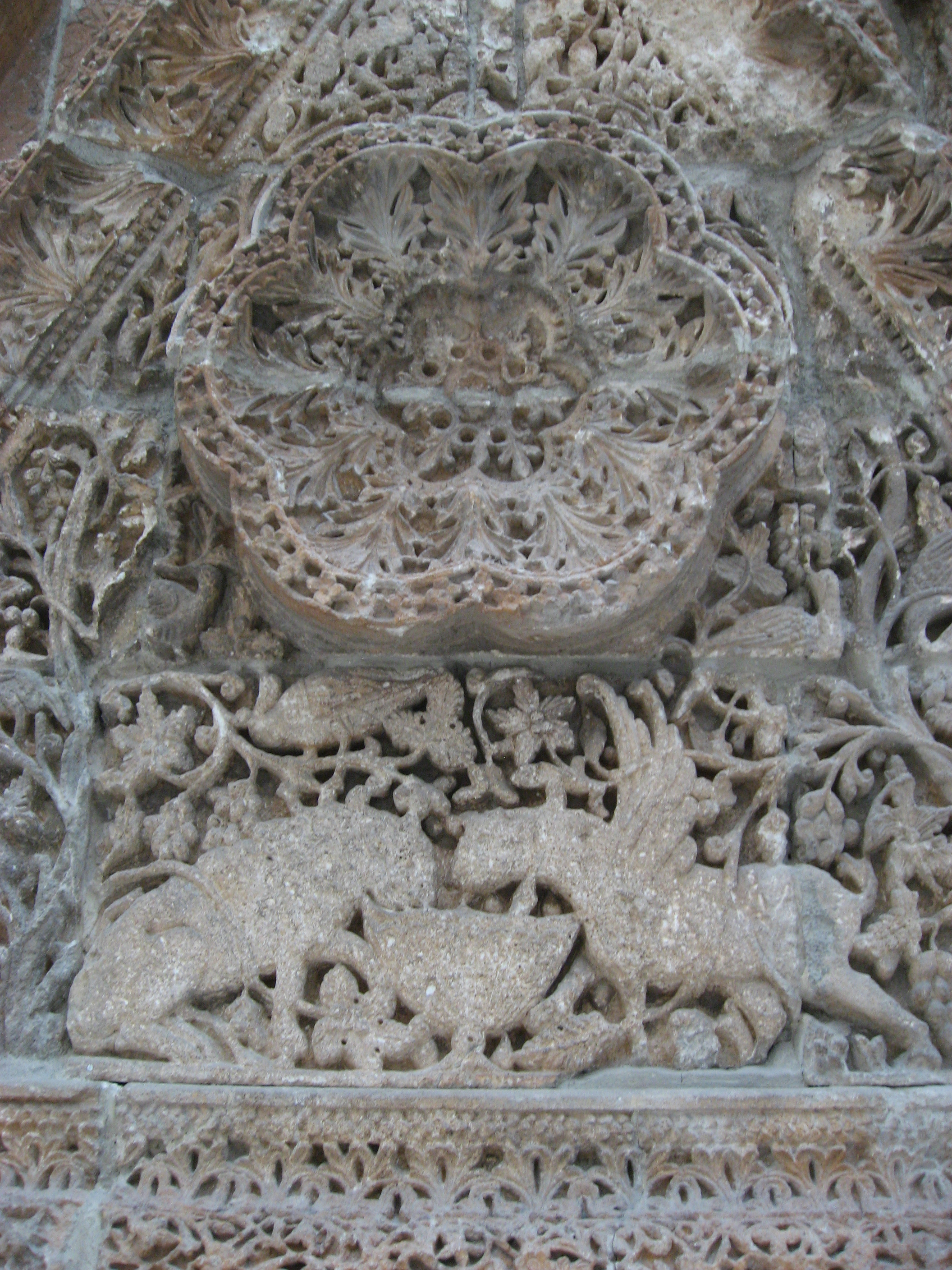 detail of the palace facade of Mashatta, kept at the Pergamonmuseum in Berlin.